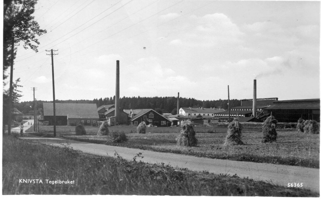 Knivsta, Tegelbruket. Tegelbruk och sågverk i Knivsta, Knivsta kommun, Uppsala län, Uppland.